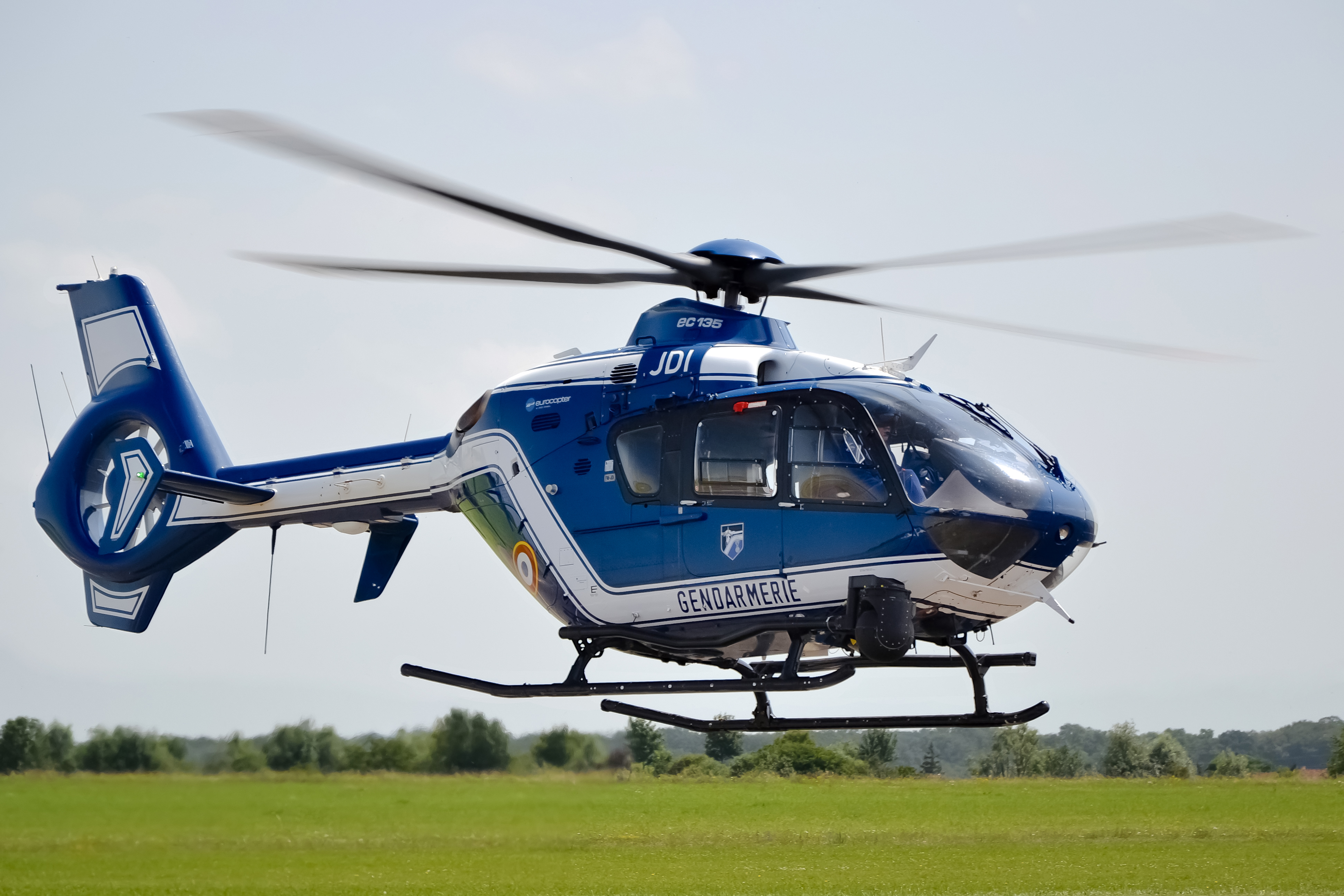 France - Gendarmerie F-MJDI (cn 0797) Nancy - Essey (ENC / LFSN)